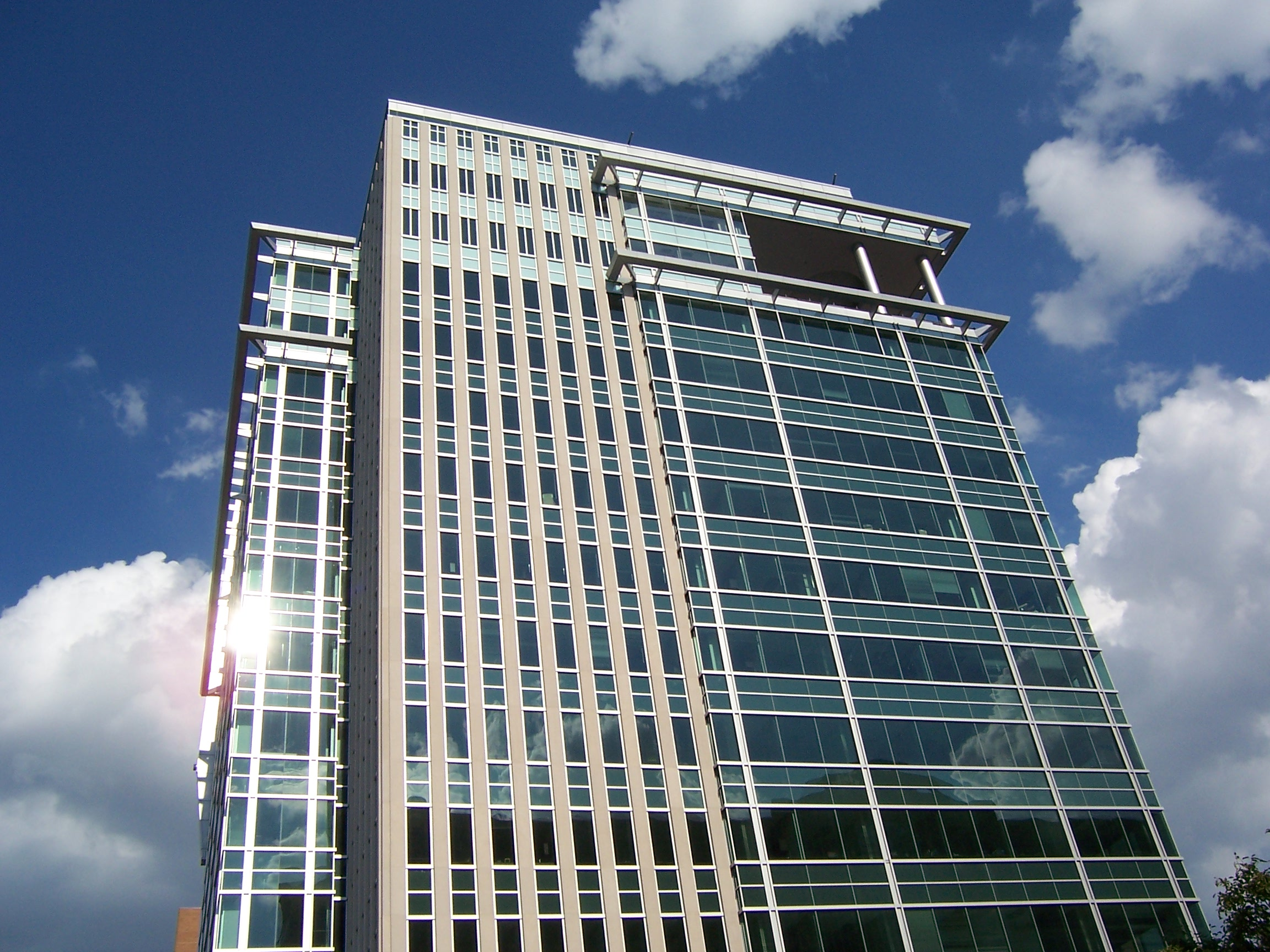 Picture of Simon Property Group's Headquarters; Indianapolis, IN; 2006